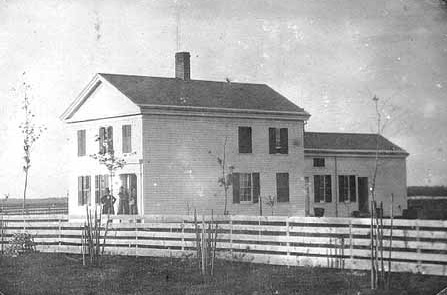 John W. North home, east side of Minneapolis, at 118 University Avenue Southeast.